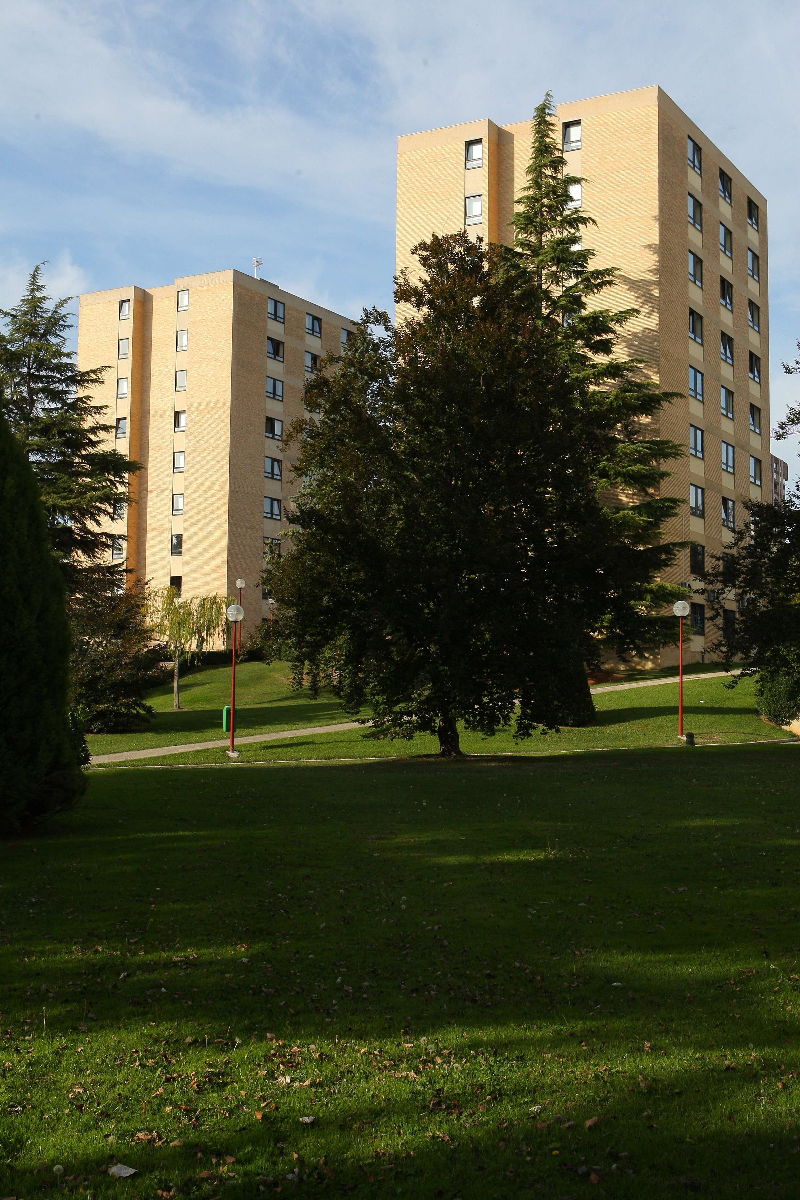 CMBelagua Towers